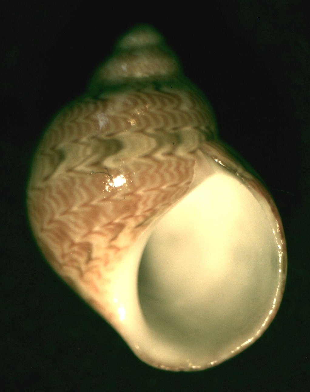 Tricolia gabiniana (Cotton & Godfrey, 1938), a sea snail from the family Phasianellidae; South Australia